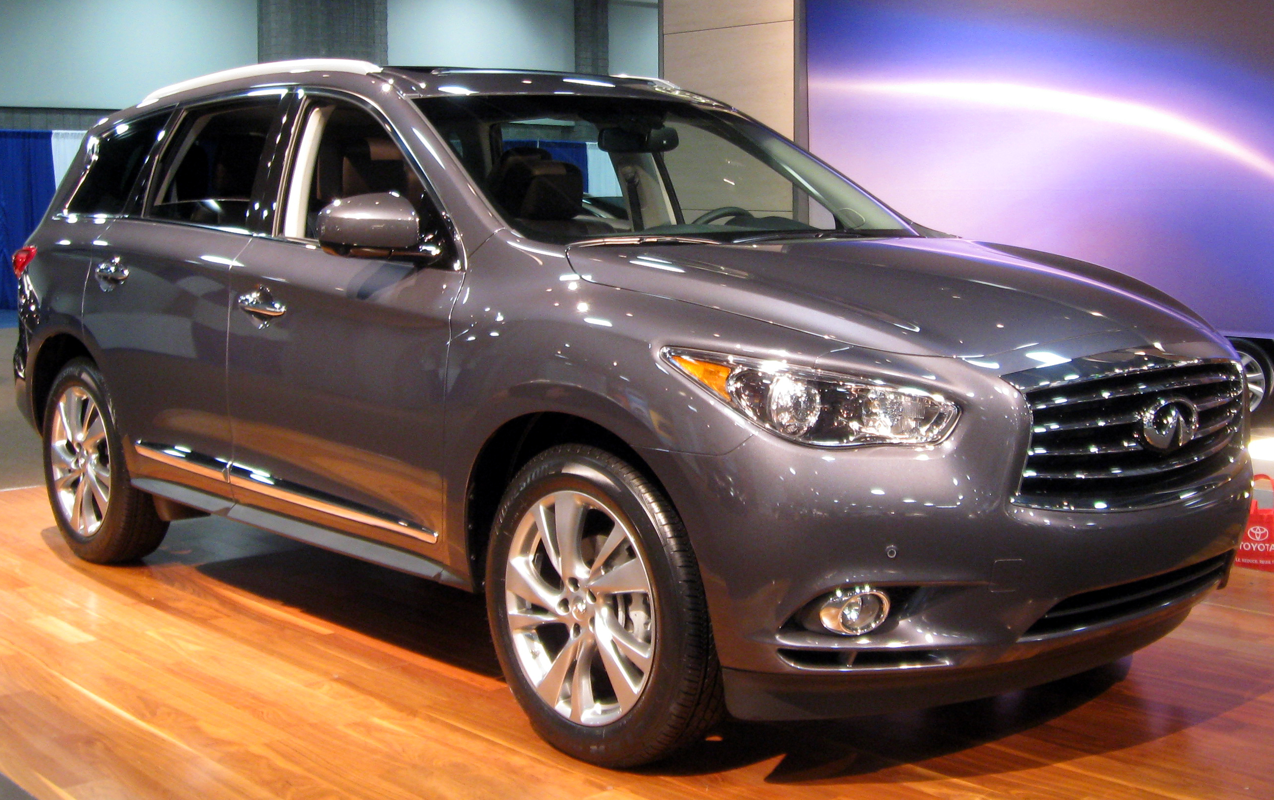 2013 Infiniti JX photographed in Washington, D.C., USA.